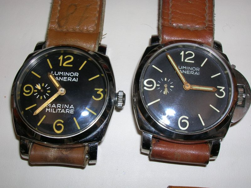 This work is free and may be used by anyone for any purpose. If you wish to use this content, you do not need to request permission as long as you follow any licensing requirements mentioned on this page.